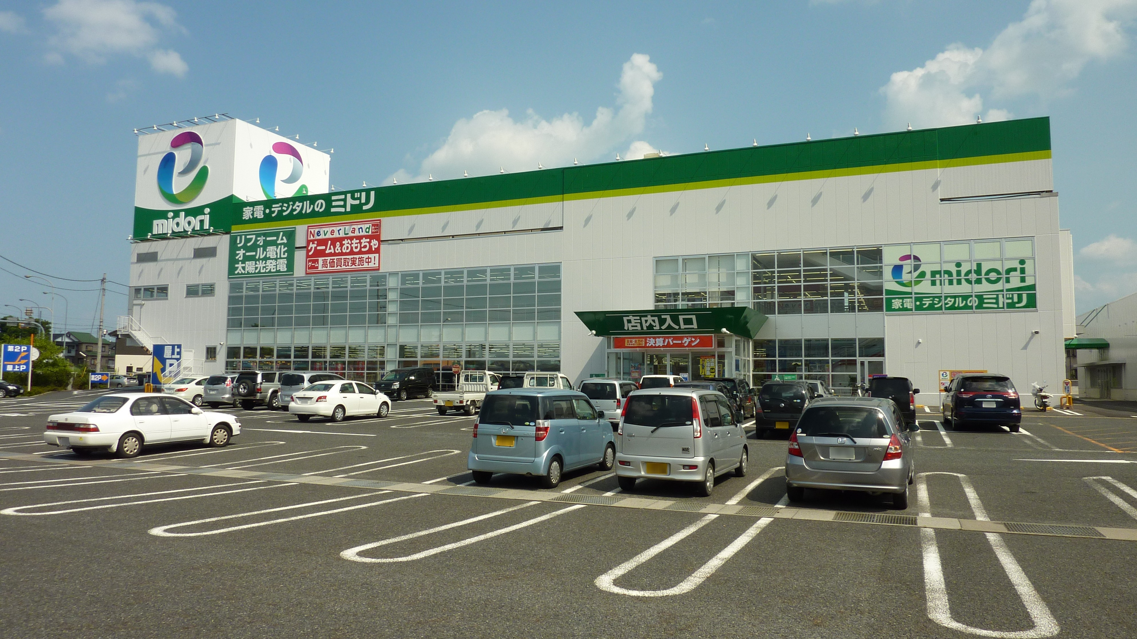 Midori (Edion group) Otsu shop